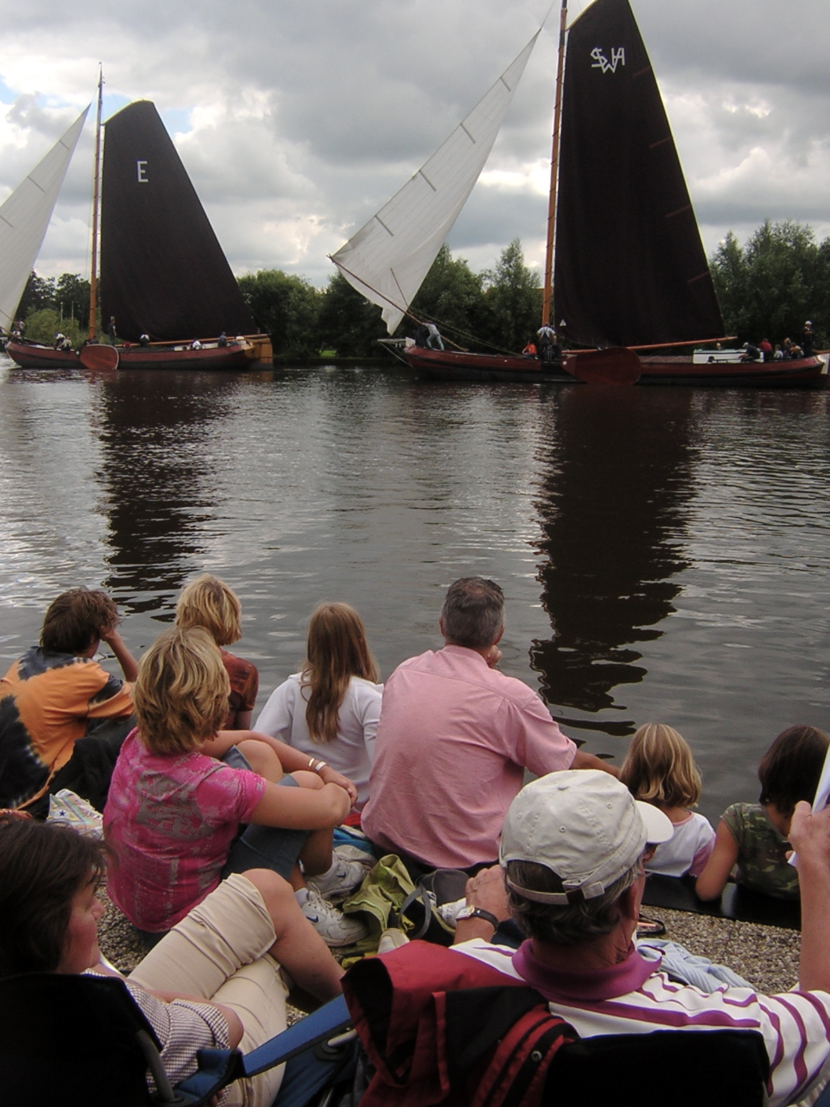 SKS - Skûtsjesilen @ Earnewâld, showing ships "Twee Gebroeders" (E - Earnewâld) and "Súdwesthoek" (SWH - Stavoren) Frisian people will probably hate me for saying this, but looking at a sailing contest with almost no wind at all kind of sucks. Especially when you realize that the skûtsjes are actually bulky transport sailing ships of almost a century old. These babies need wind, a lot of it! So with no wind at all you find yourself and thousands of other people gazing at seemingly still-floating ships. If you look at the ships on the photo, you'll see that the crew is actually trying to move the sails back and forth. Can anyone explain the newtonian logic behind this?